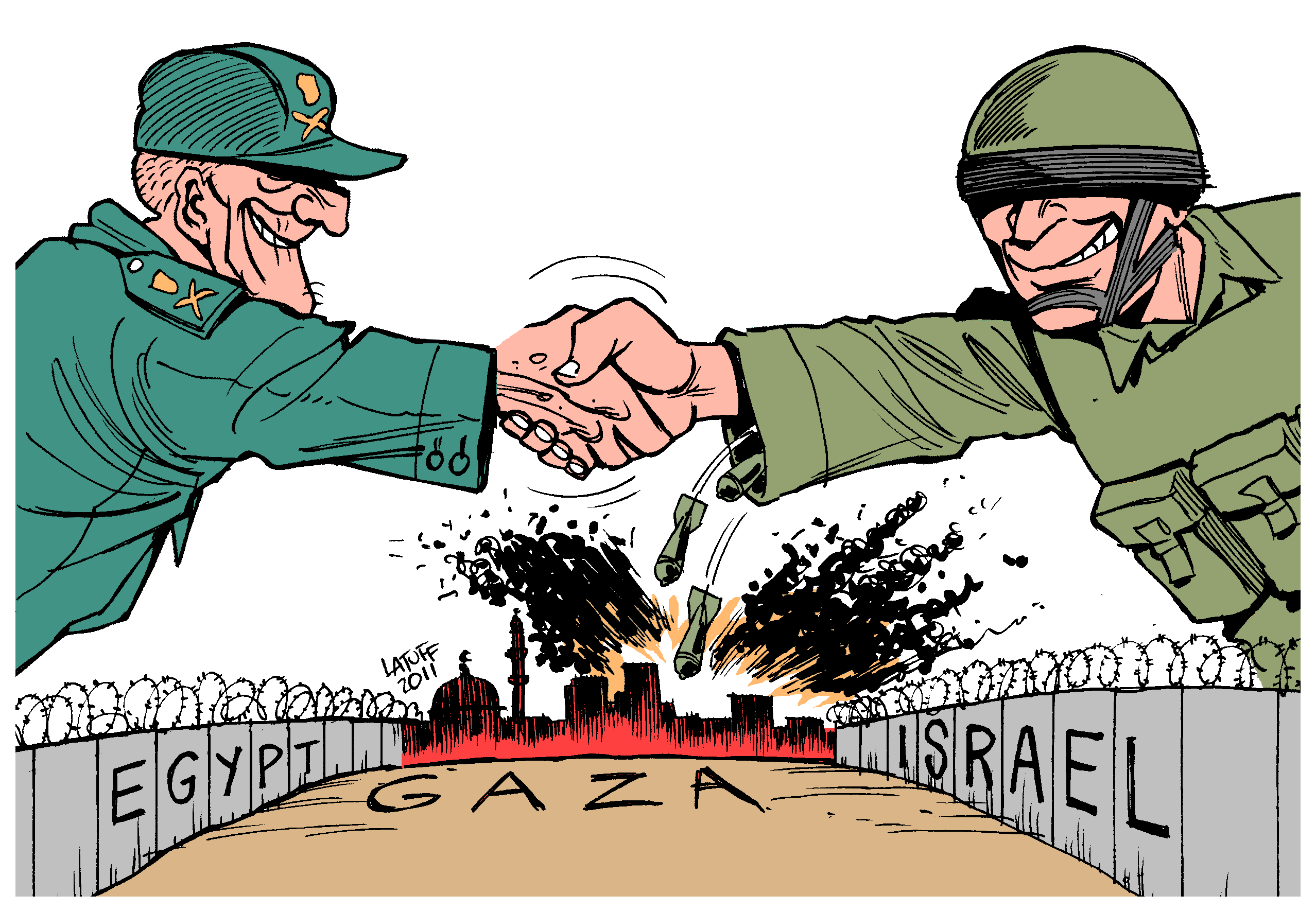 Egypt military junta complicity in Gaza siege